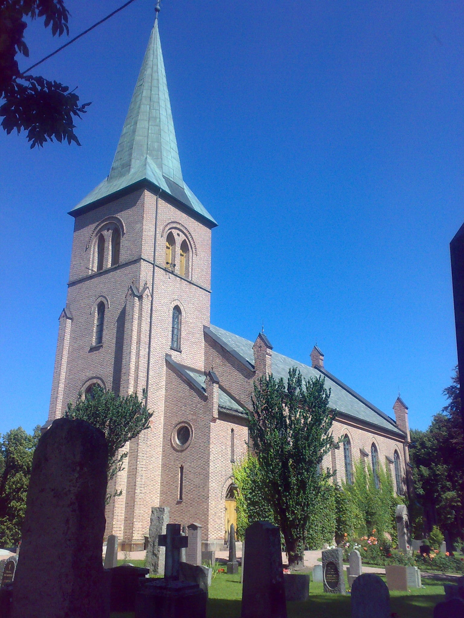 Asker Church in the city of Asker, Akershus, Norway